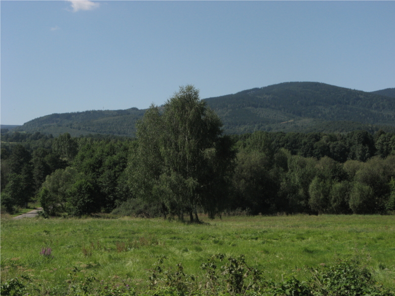 Srebrna Kopa as seen from Wieszczyna.